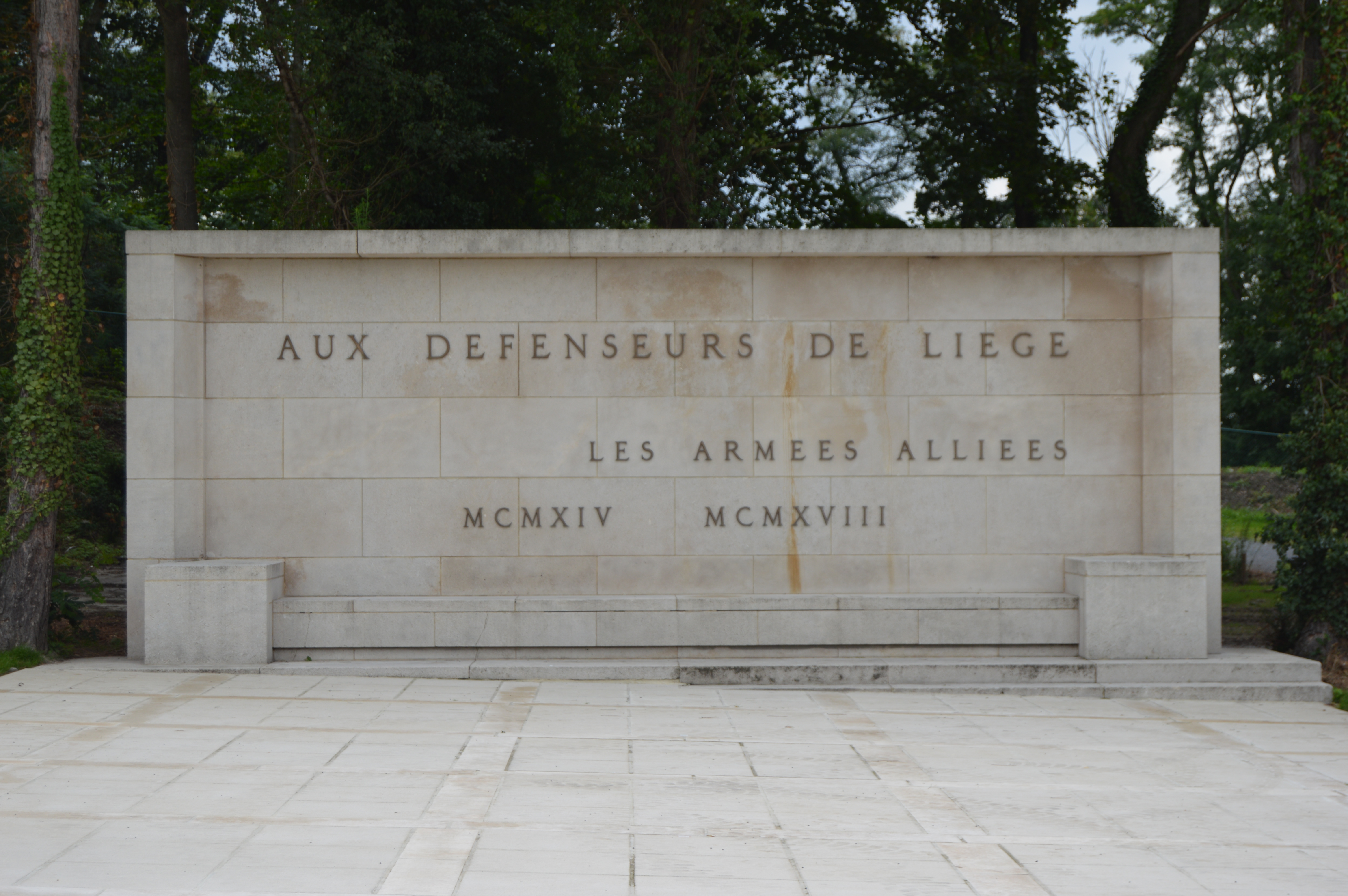 Monument at the Interallied monument (WWI) Cointe, Liège, Belgium; for the defenders of Liège